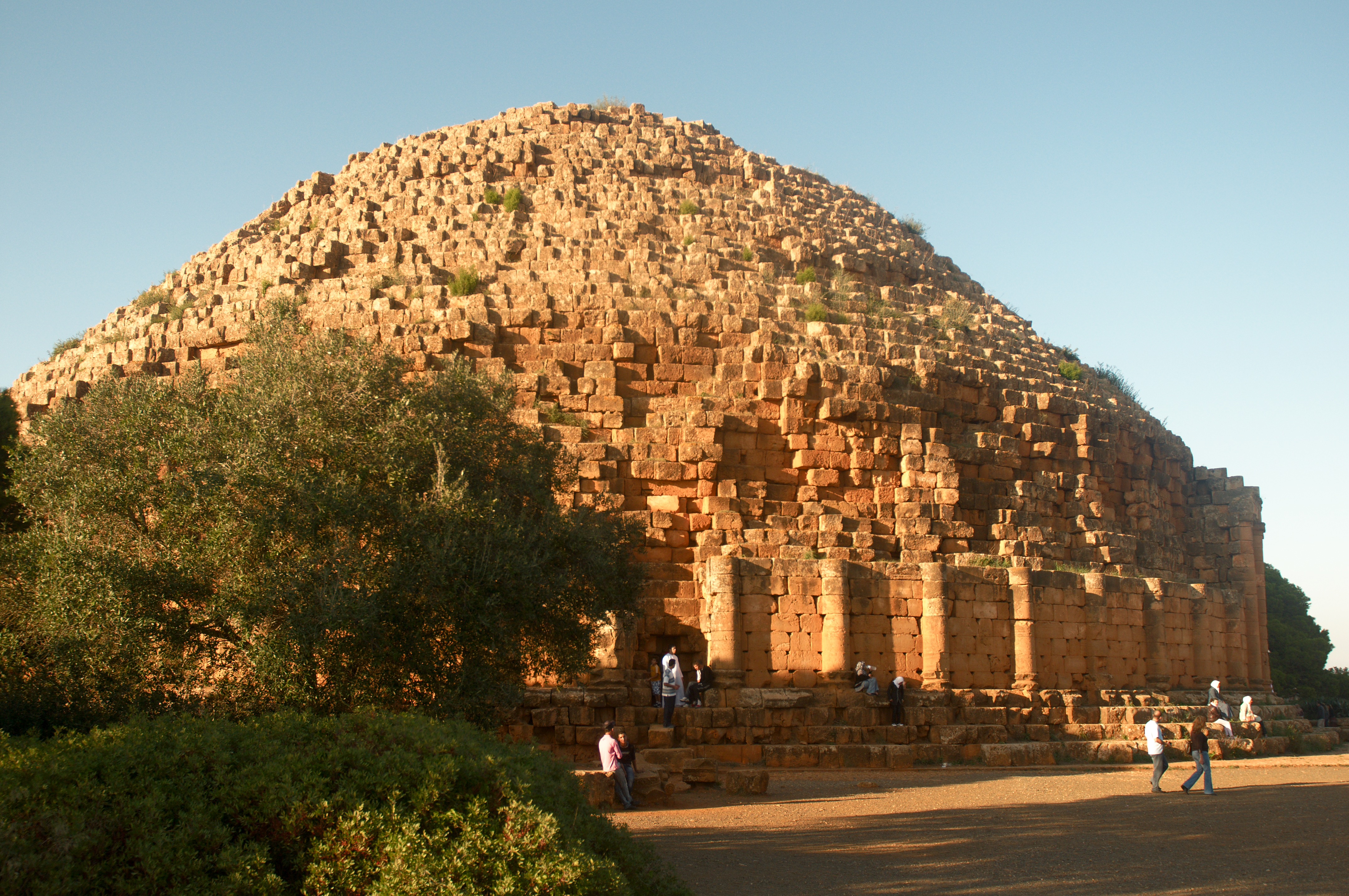 Juba II tomb near Algiers